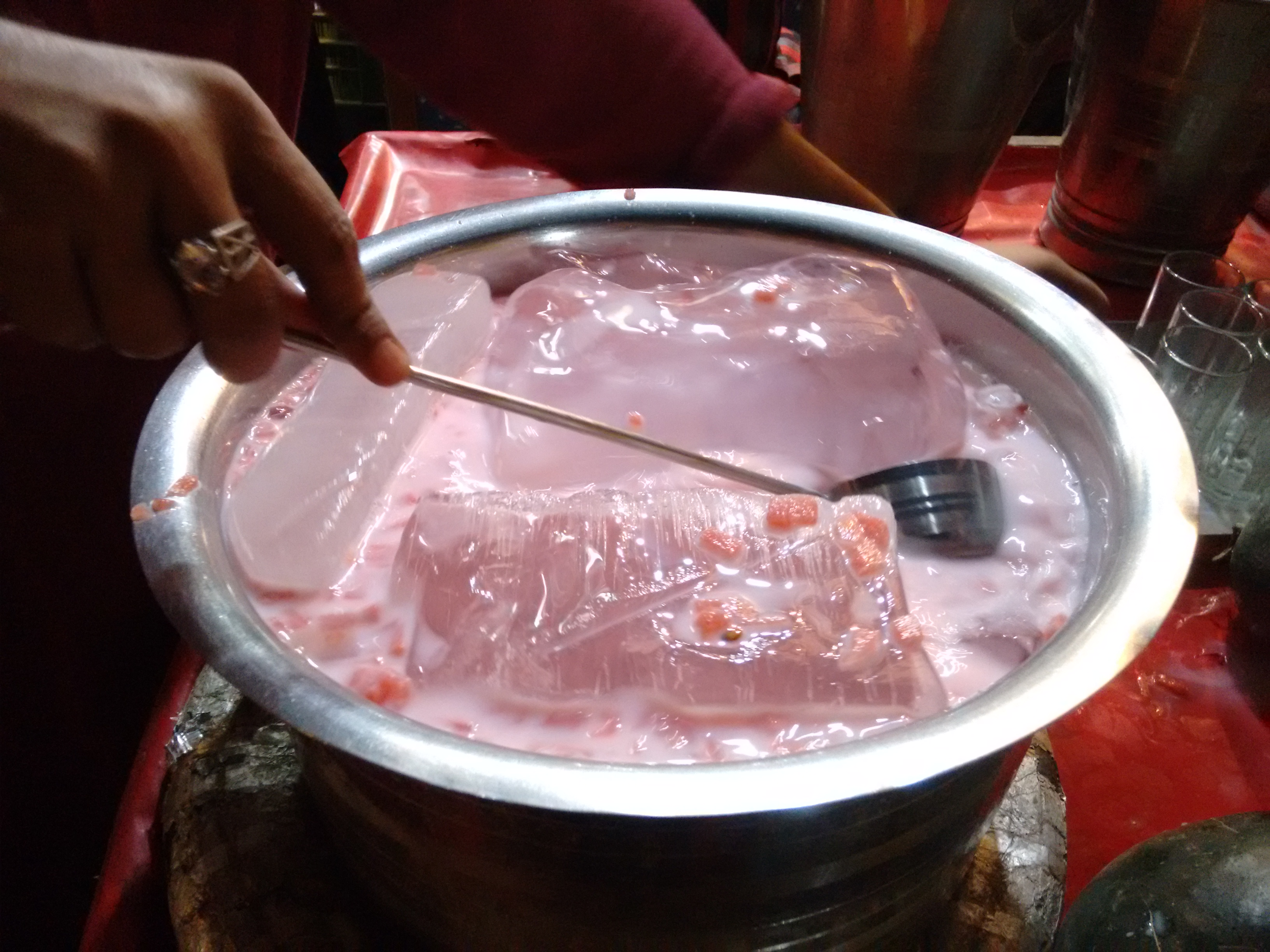 The most refreshing drink sold at Gali Sharbat Wali, Purani Dilli.